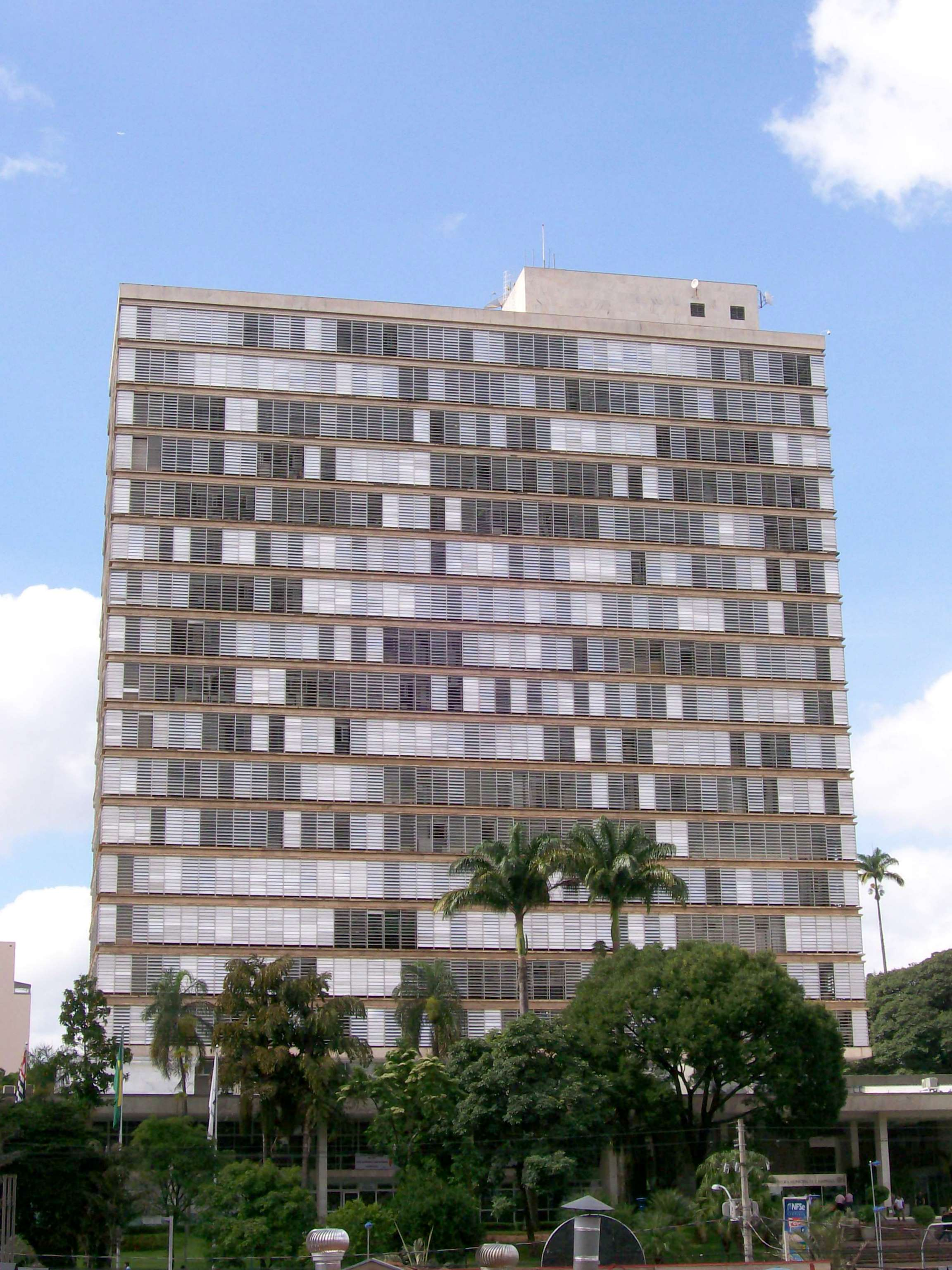 Jequitibás Palace, city hall of Campinas, Brazil.